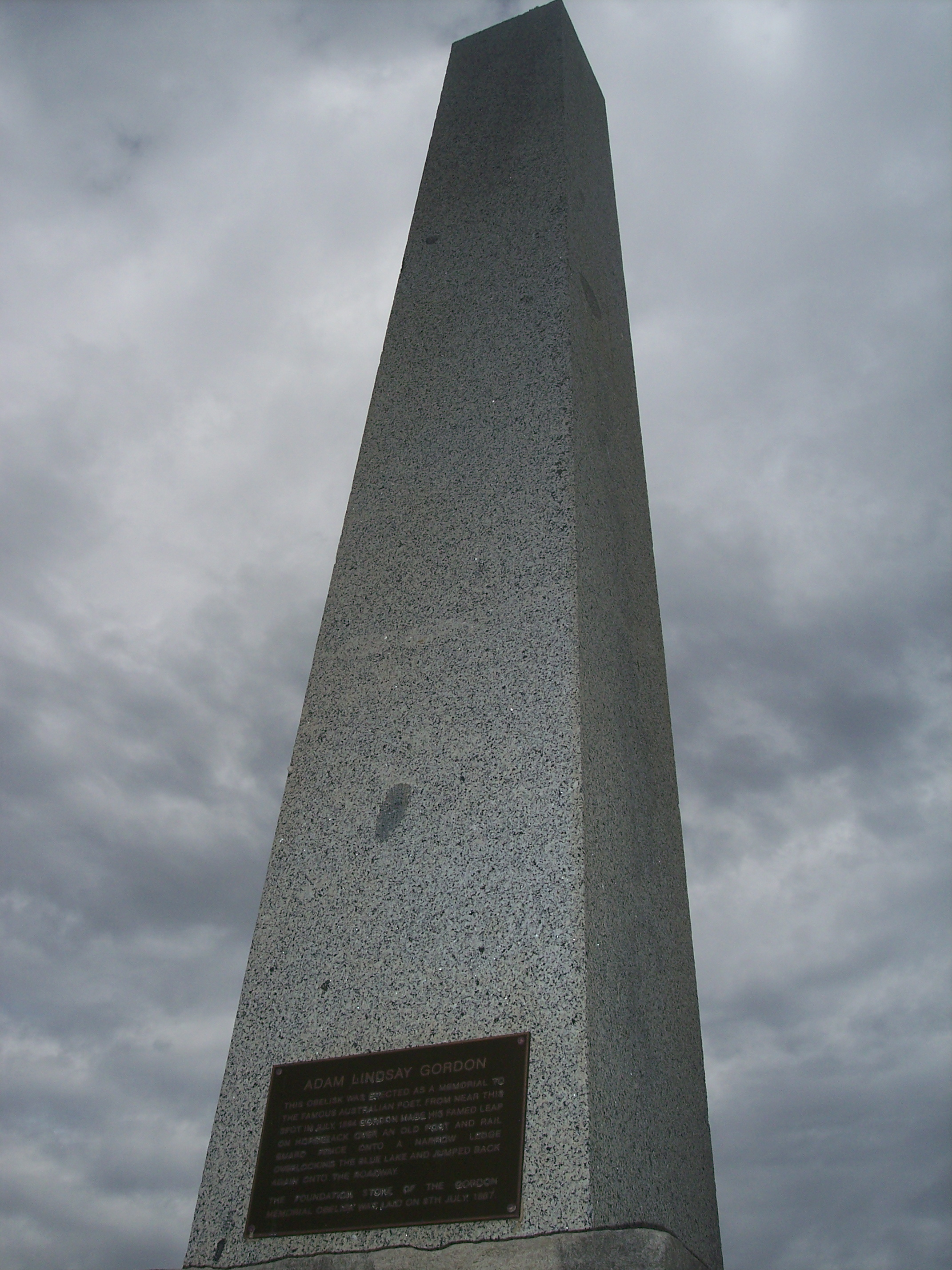 Monument dedicated to Adam Lindsay Gordon between the Blue Lake and the Leg of Mutton lake. The plaque reads as follows:ADAM LINDSAY GORDONThis obelisk was erected as a memorial to the famous Australian poet. From near this spot in July, 1864 Gordon made his famed leap on horseback over an old post and rail guard fence onto a narrow ledge overlooking the Blue Lake and jumped back again onto the roadway.The foundation stone of the Gordon memorial obelisk was laid on 8th July, 1887.